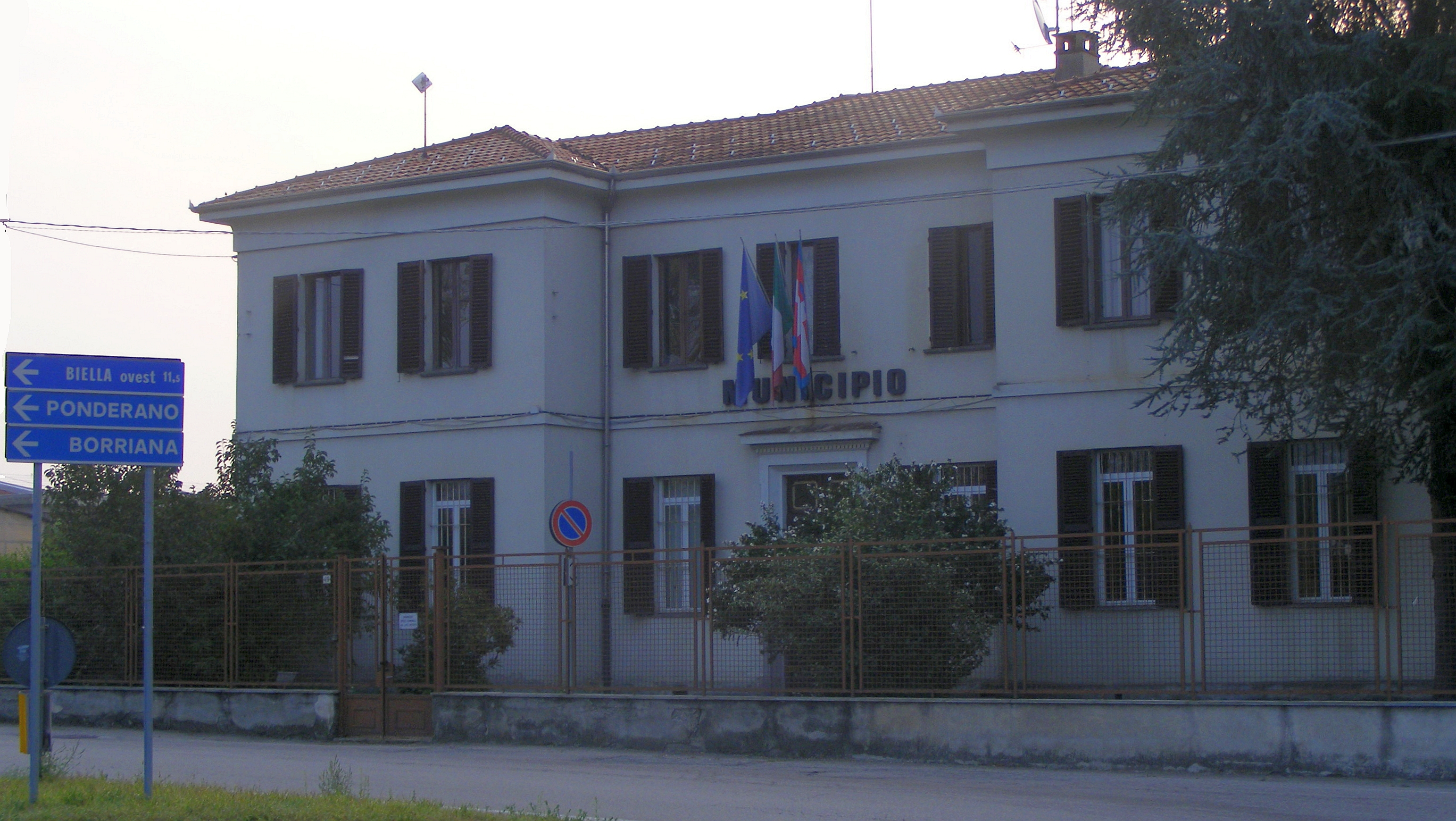 Cerrione (BI, Italy): town hall (in fraz. Vergnasco)